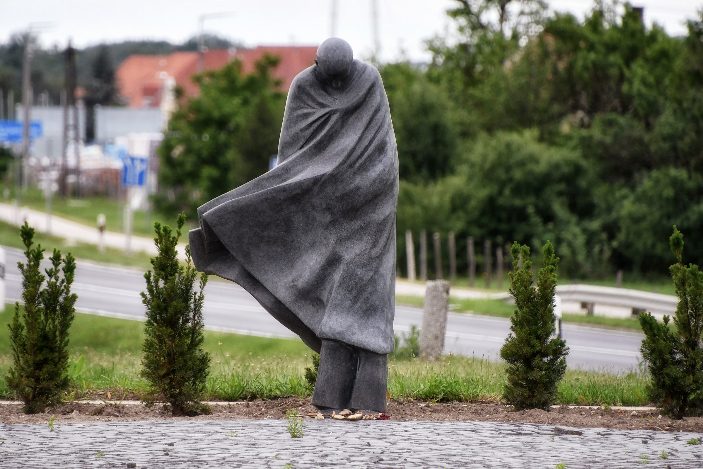 Statue of Miklós Radnóti in Győr, Hungary